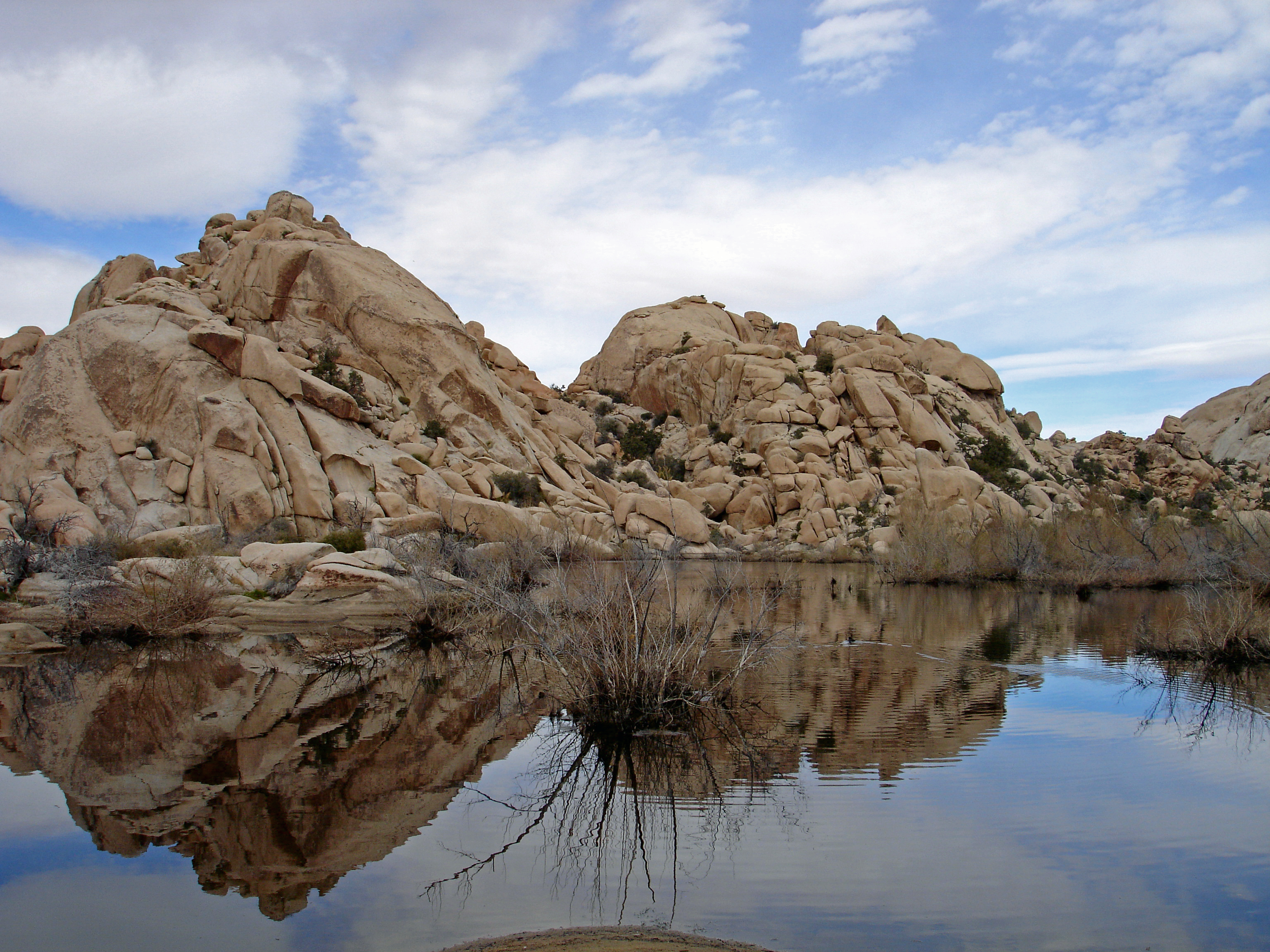 Photo of Barker Dam taken February 2006. Photographer releases all rights worldwide.